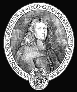 Marquard Sebastian Schenk von Stauffenberg